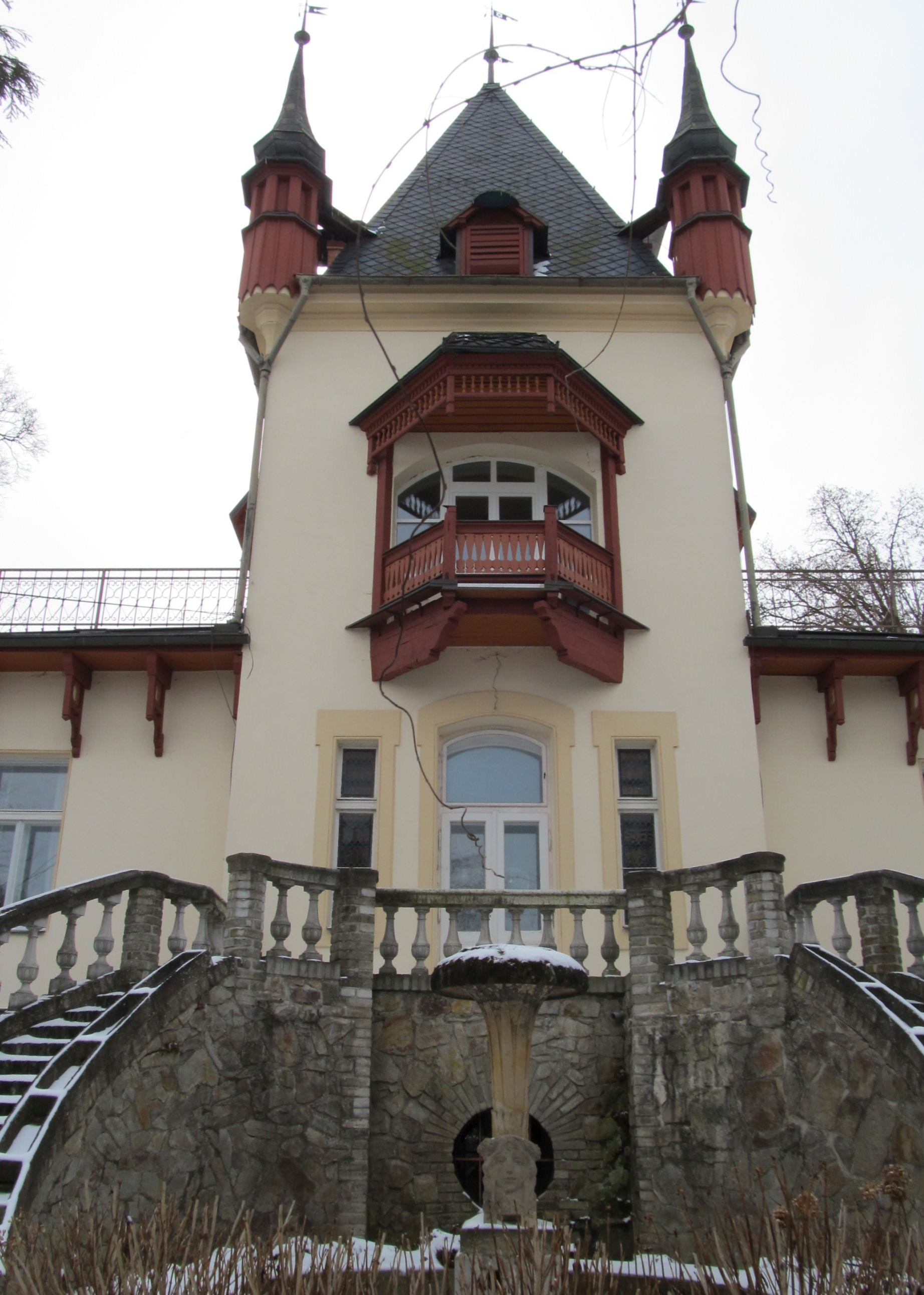 Sochor family house in Revnice